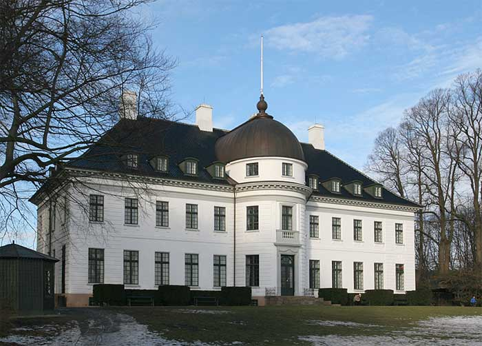 Bernstorff Slot(castle) north of Copenhagen. Ptoho by Henrik Jessen